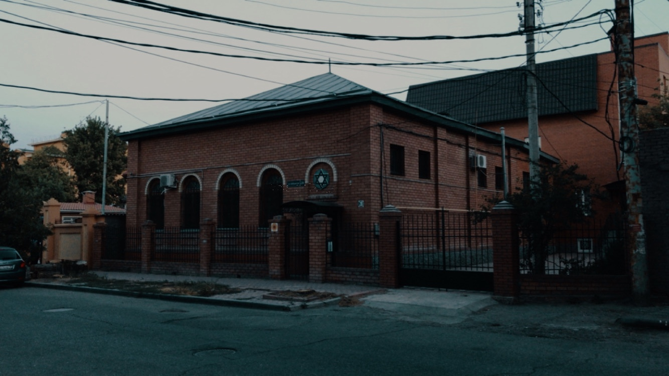 Synagogue in Astrakhan